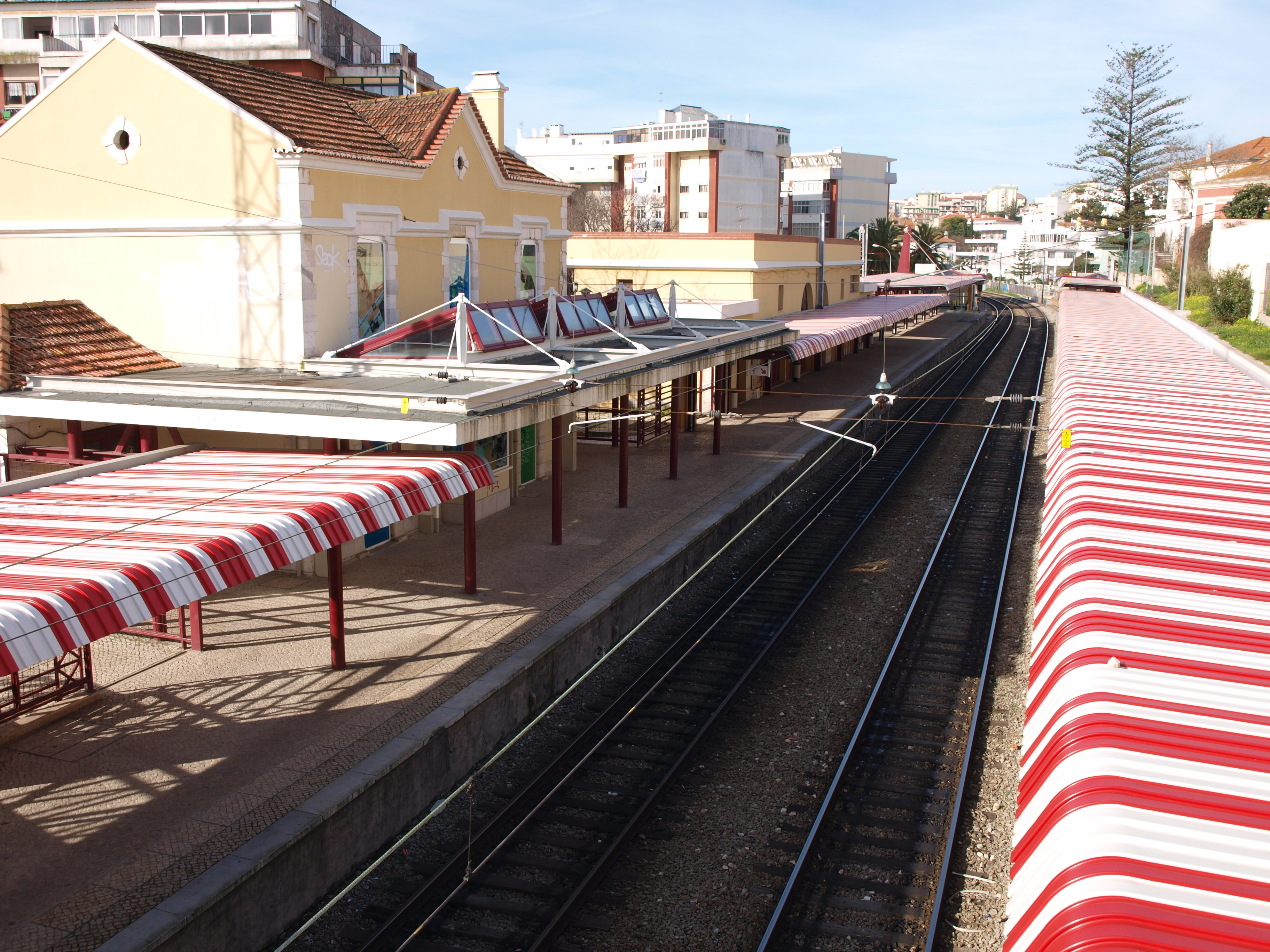 Paço de Arcos train station (general view), Portugal.